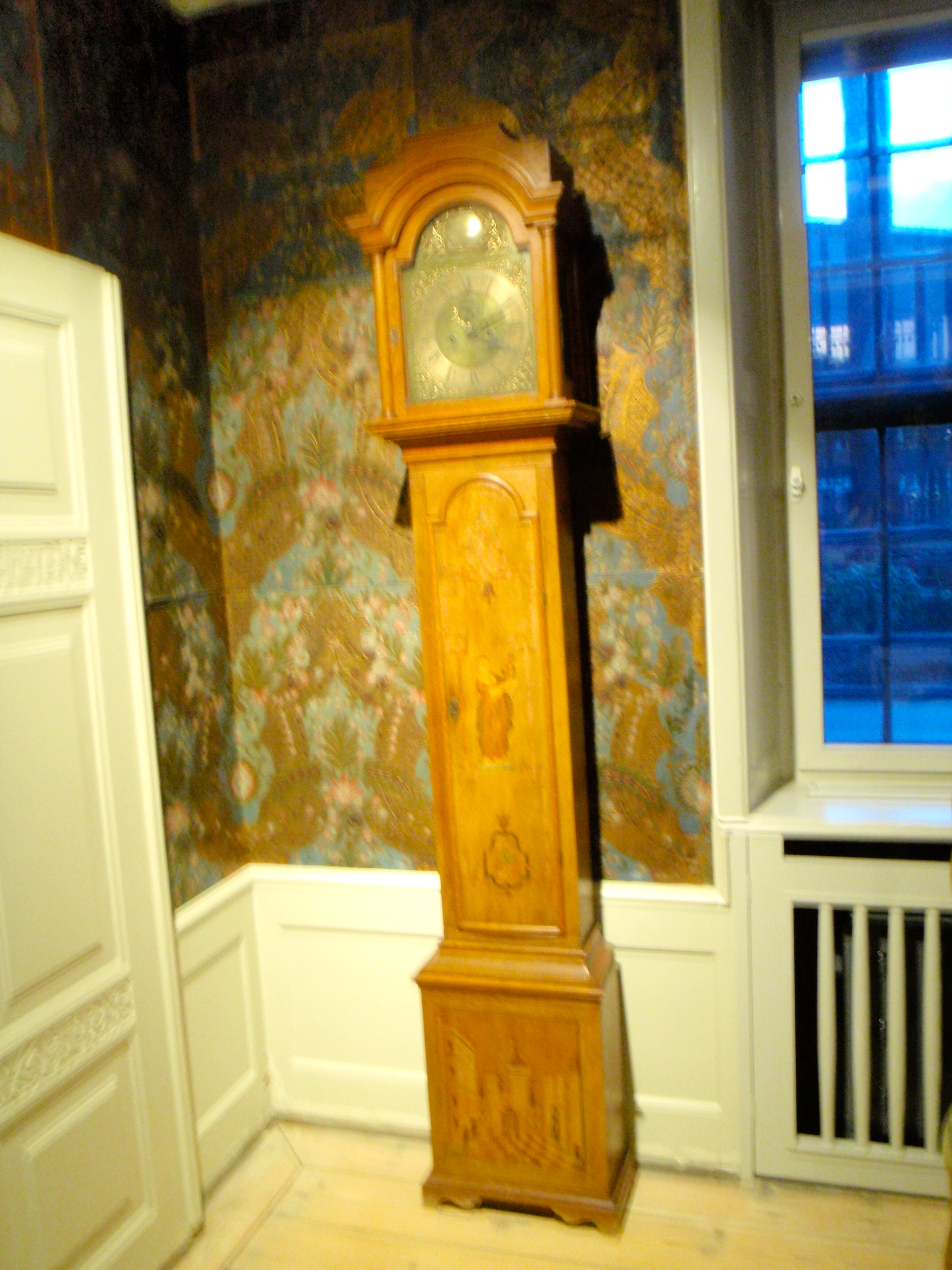 Pendulum clock situated in Bergen Art Museum. The casing is of fine woods with intarsia-patterning